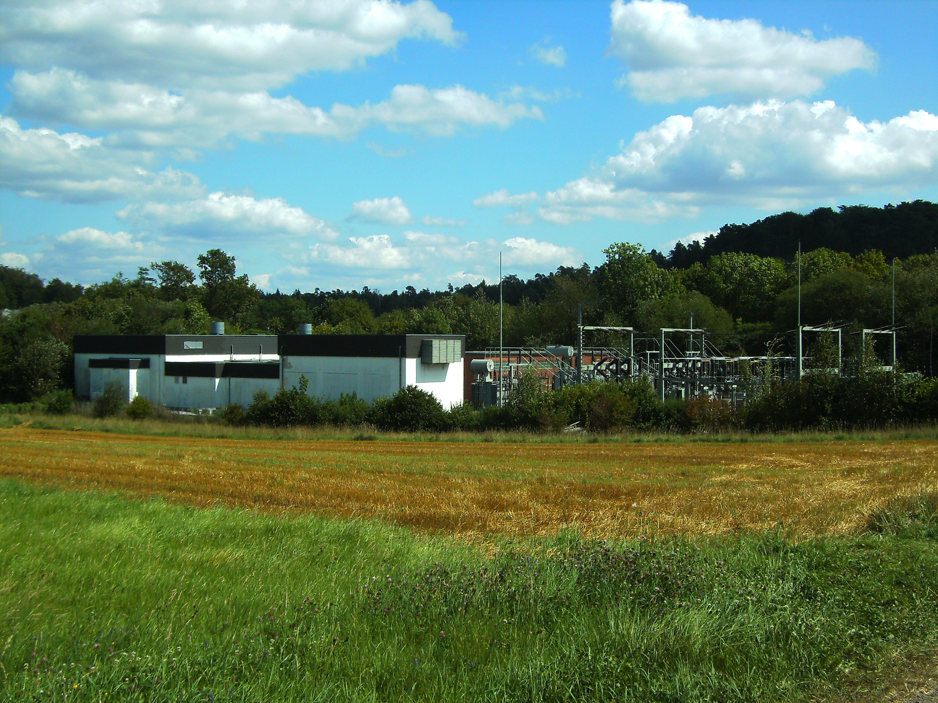 Neuhof substation. In the black and white halls, there were from 1985 to 2005 rotary converters